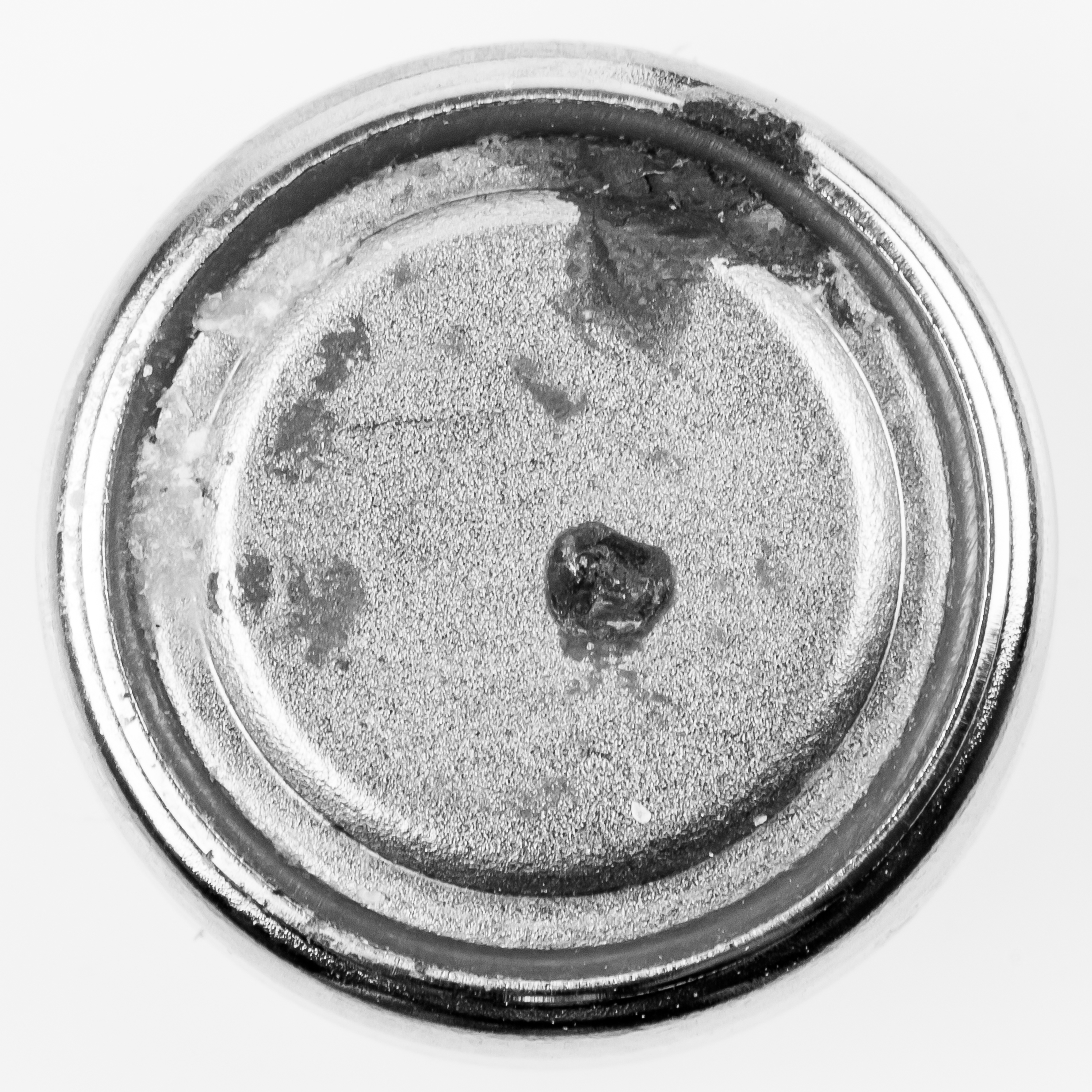 Varta V 390 button cell